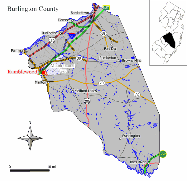 Source: Jim Irwin Original work by Jim Irwin, December 2005.